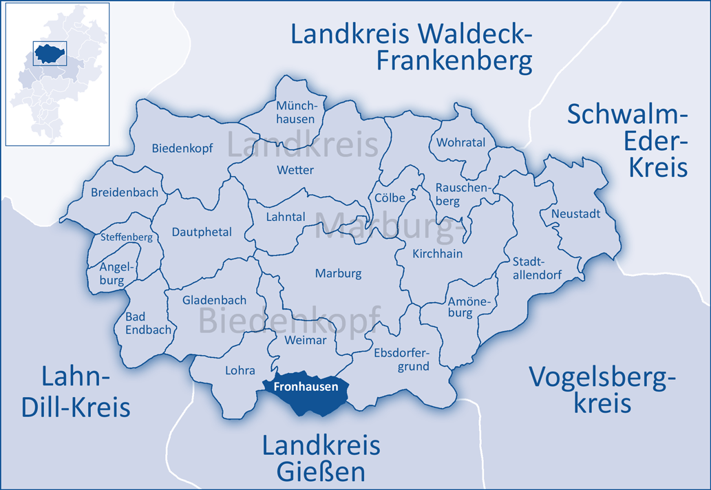 The map shows the municipal territory of Fronhausen in the district of Marburg-Biedenkopf.